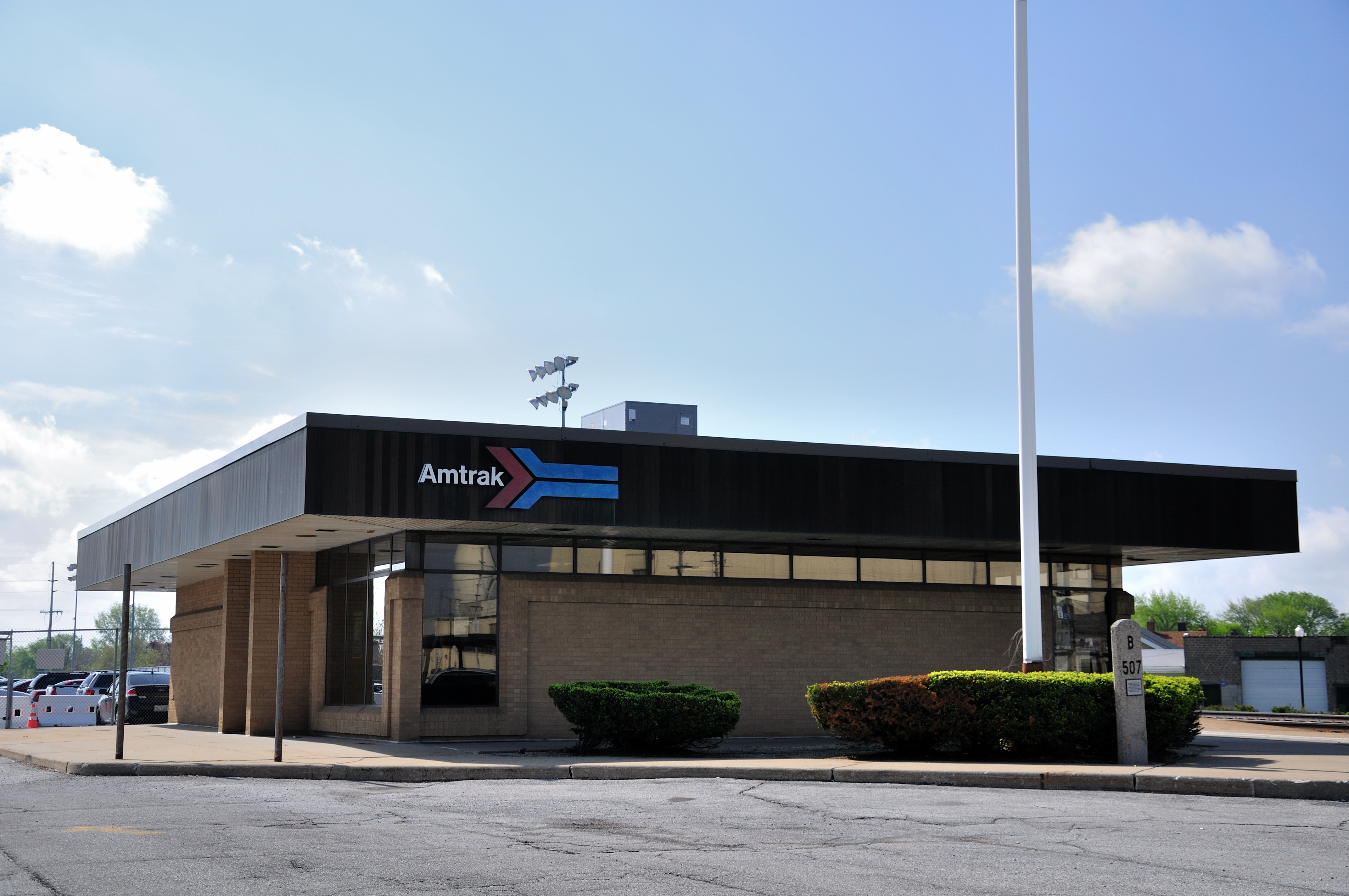 The 1982-built Hammond-Whiting station in May 2010